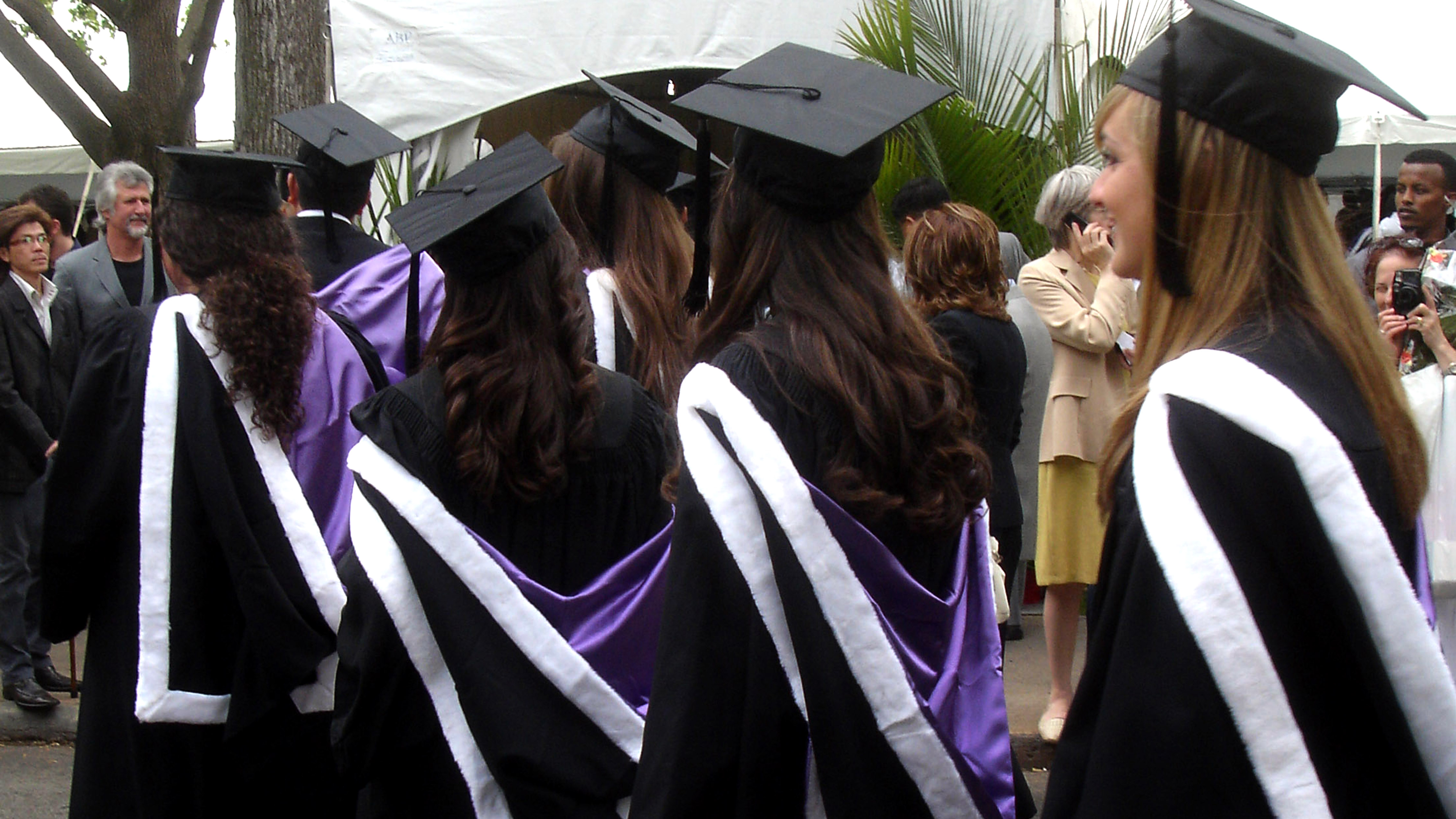 McGill undergrad robes